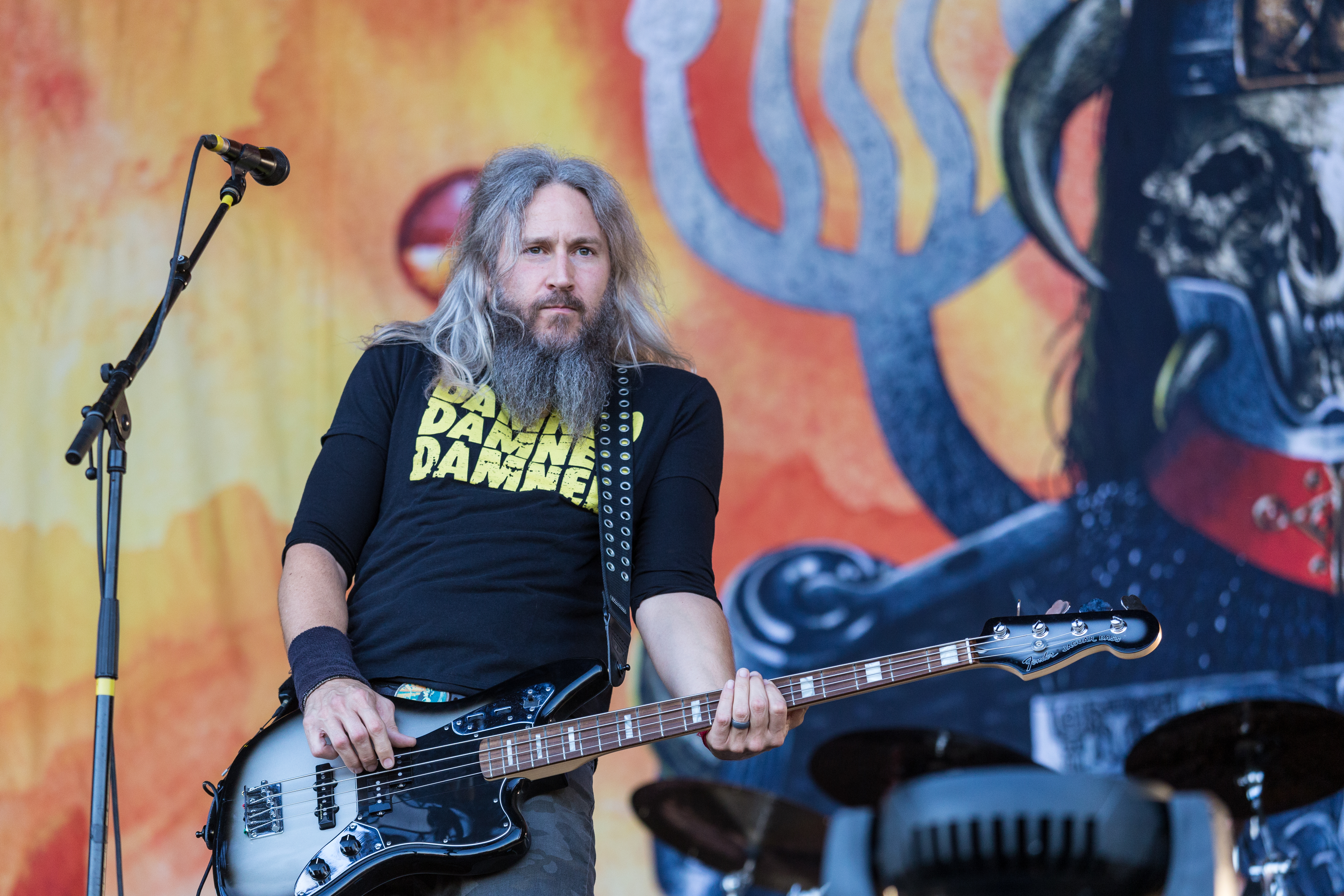 Nova Rock 2017 Troy Sanders from Mastodon at the Nova Rock 2017